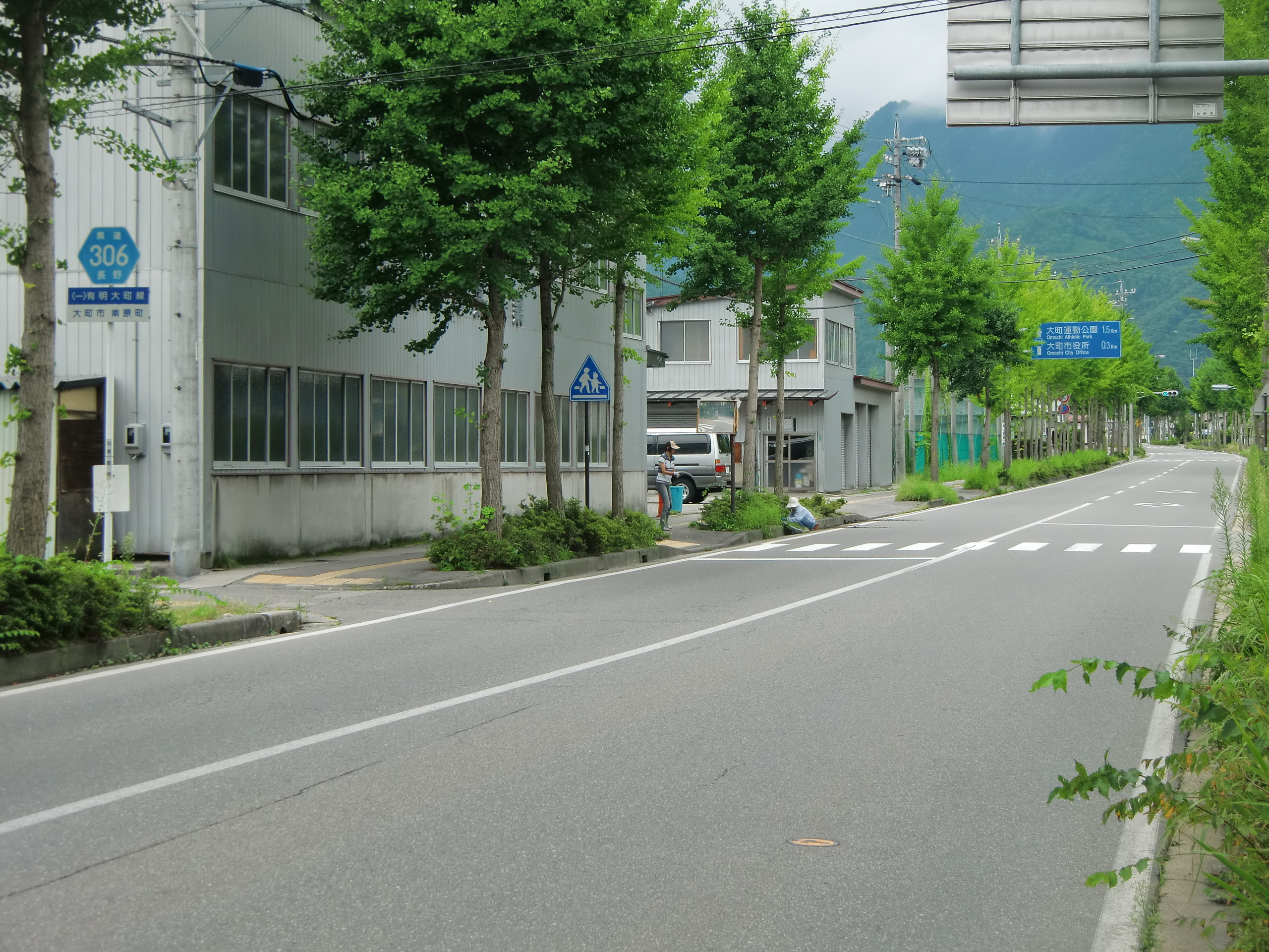 Nagano prefectural road 306 (Ariake-Ōmachi line) in Minambara-Machi, Ōmachi city, Nagano prefecture, Japan. This picture shows old part of this route.